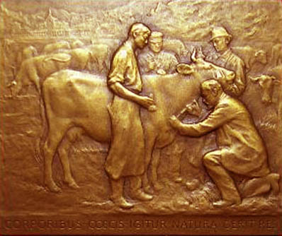 Medal